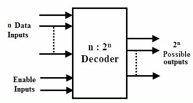 block diagram